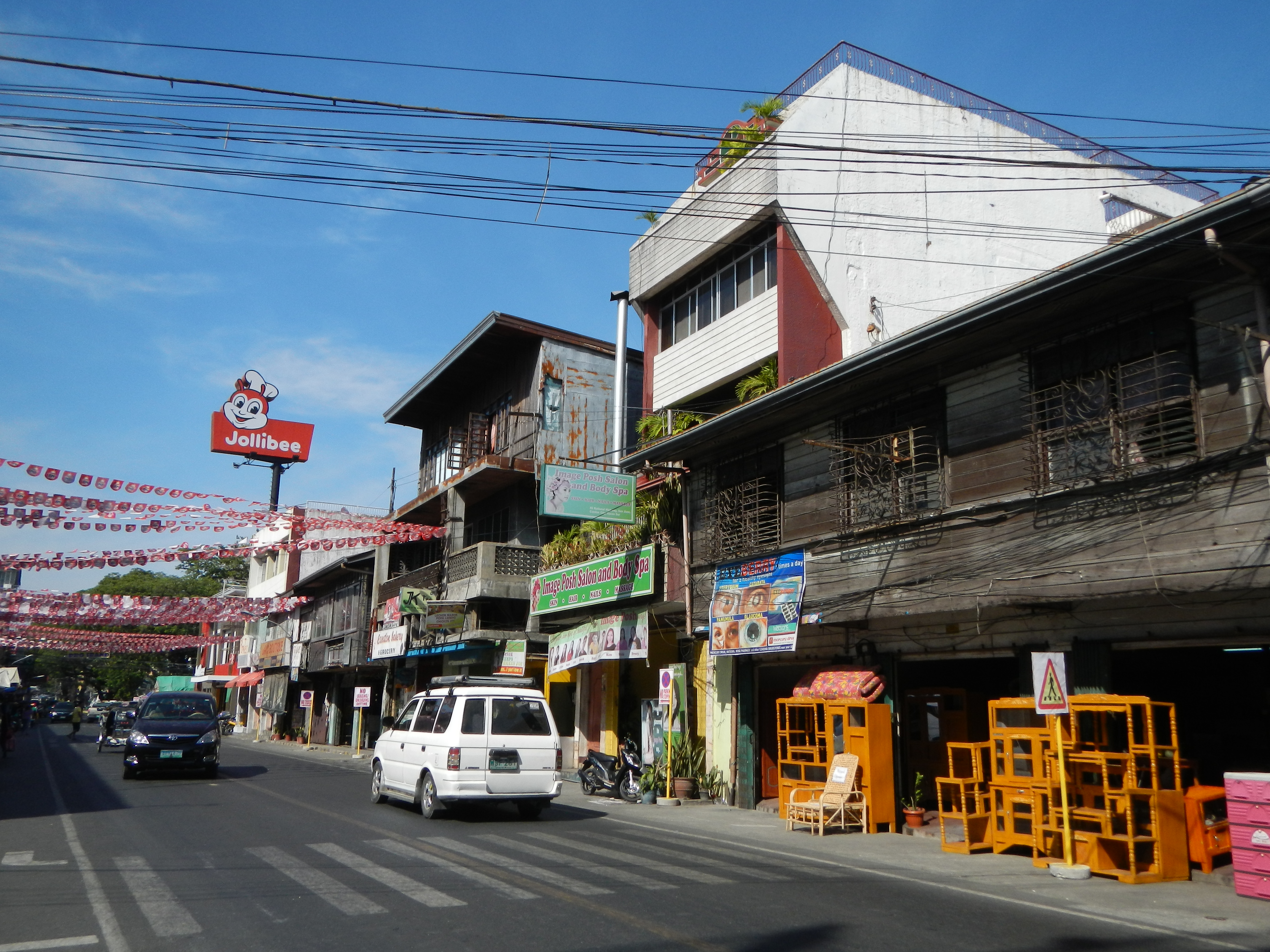 Candon City Proper, Centro, downtown in the March 22-30, 2014 13th Tobacco Festival, Candon Civic Center and Park, indomitable Don Isabelo Abaya, fought and successfully liberated Candon from the Spanish overlords, whose descendant is Emilio AbayaMarch 25, 1898 Historical Marker Statue, Sacada Memorial Marker, Tribute to 14 Sacada Workers from Hawaii, December 20, 1906 Ilocos Sur province, along the Manila North Road or Pan-Philippine Highway.